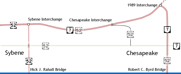 Map made by User:Seicer